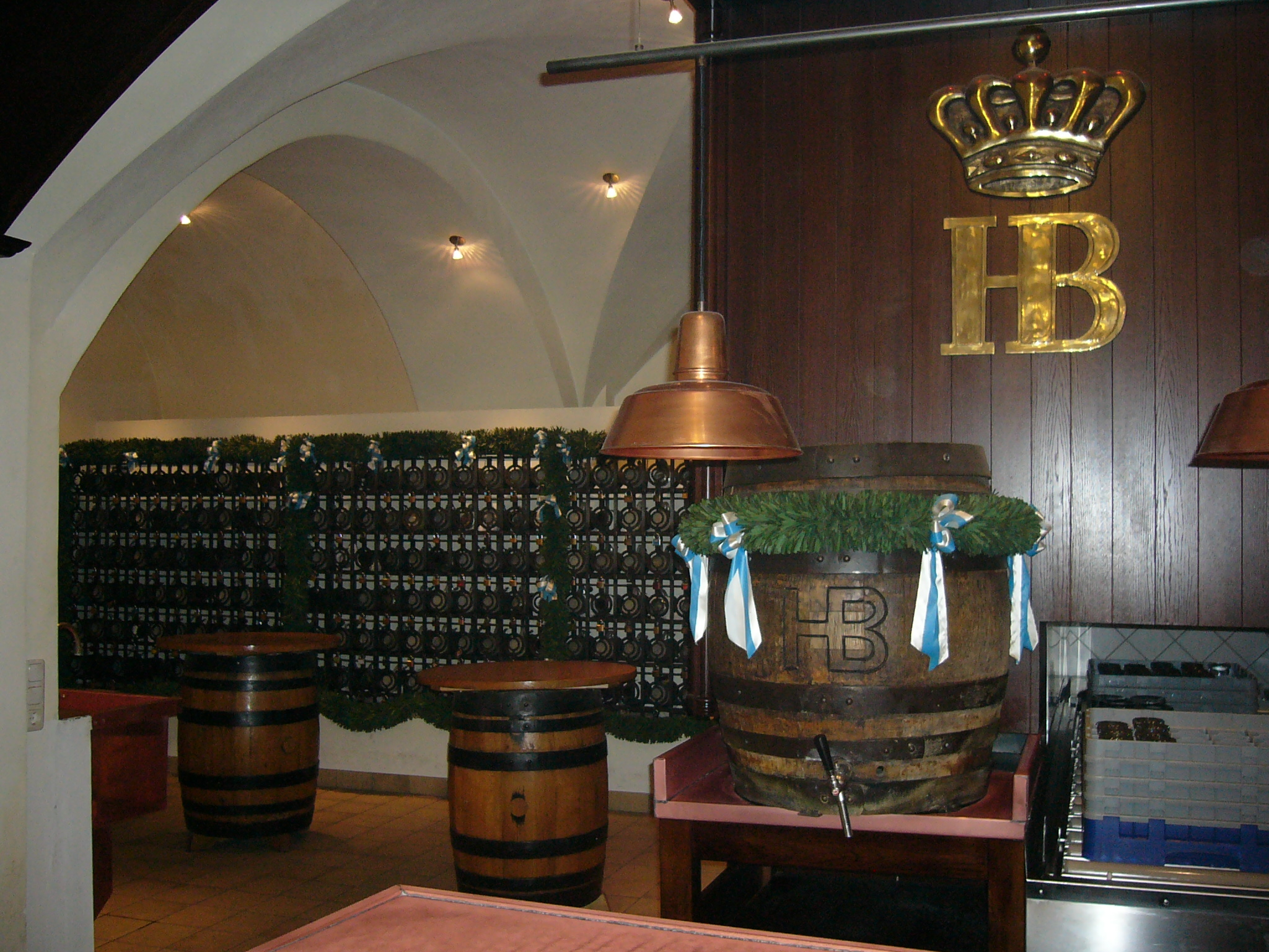 Hofbräuhaus am Platzl: devices for storing personal steins.